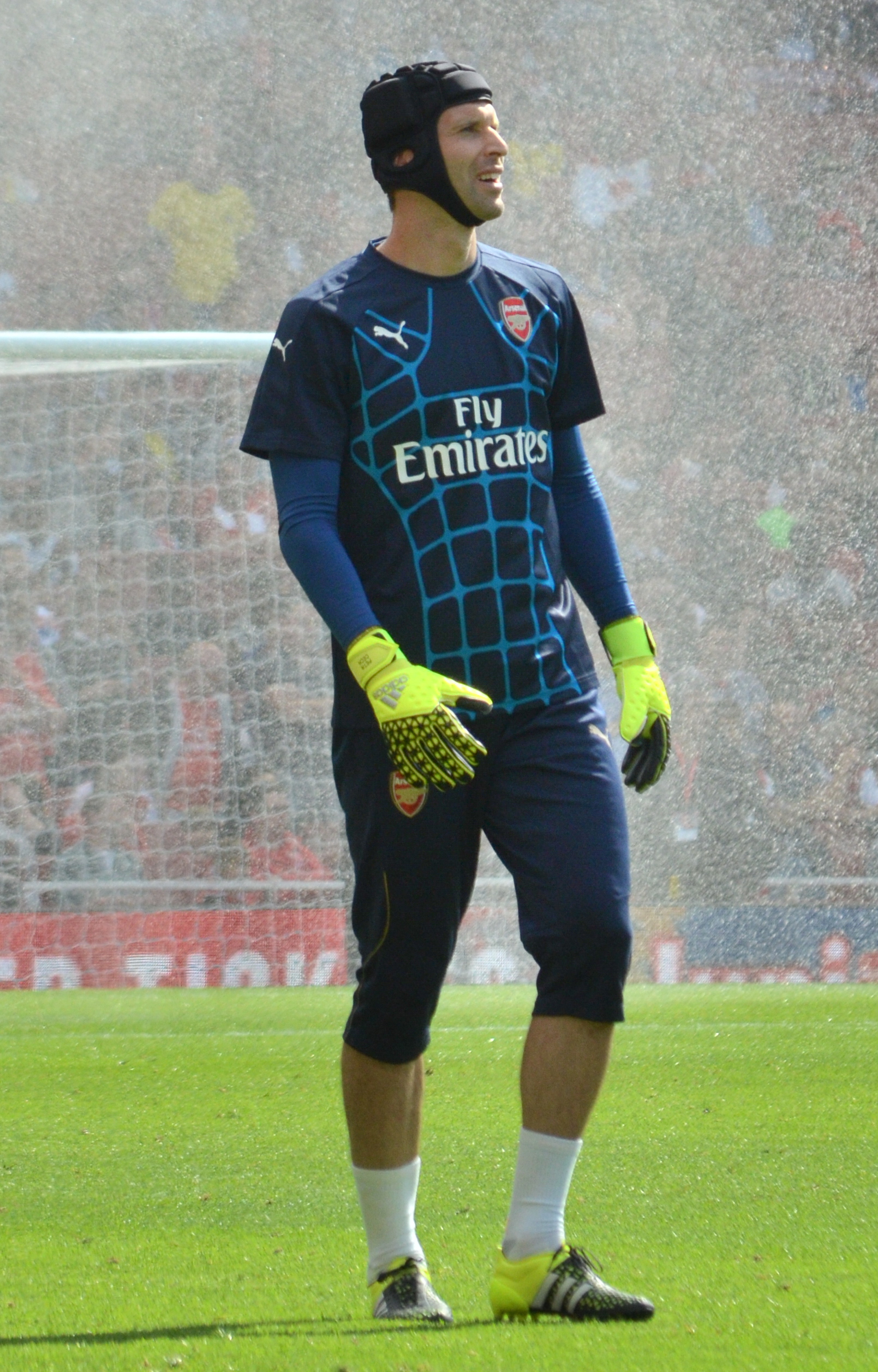 Petr Cech warming up for Arsenal